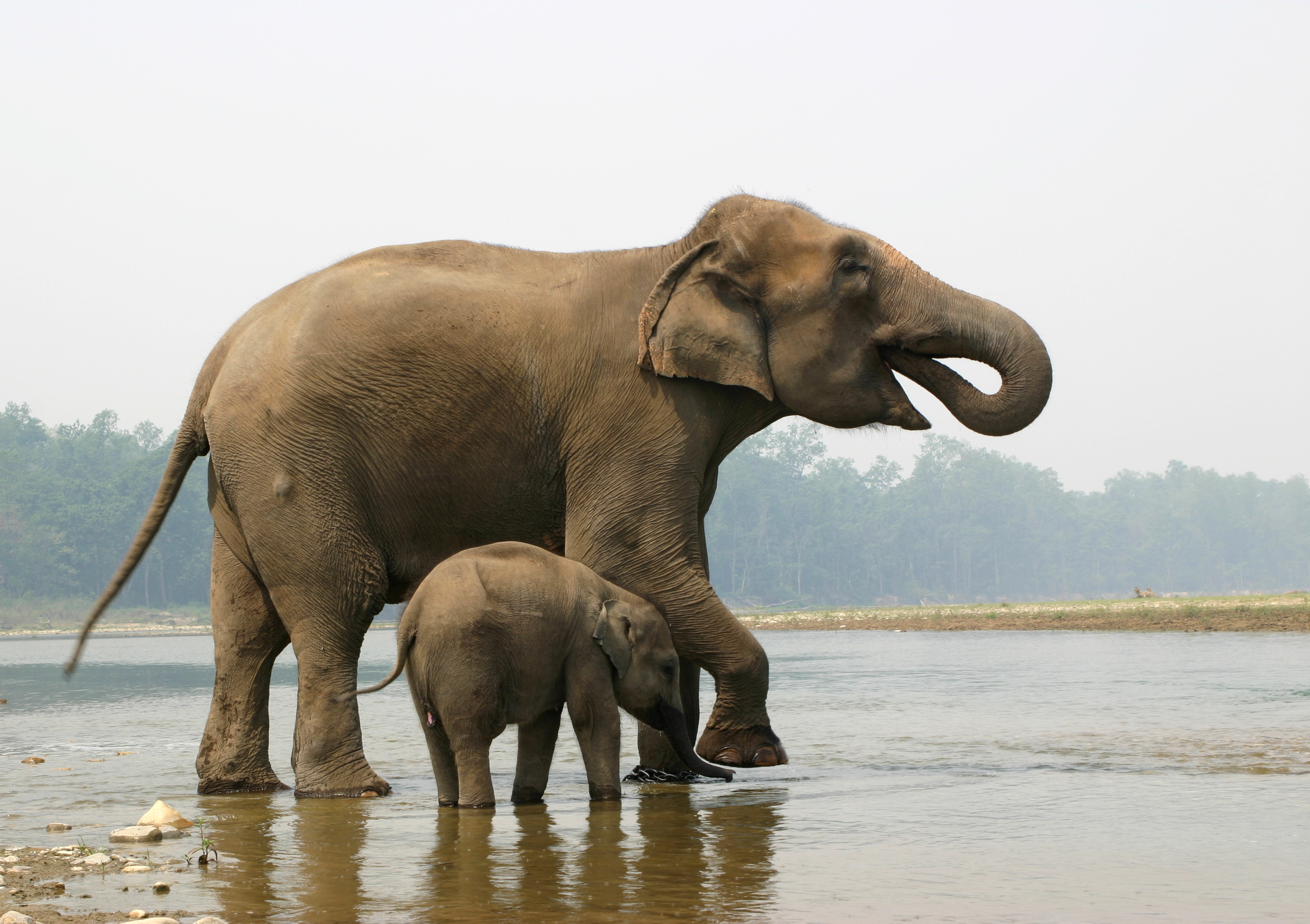 Elephant mother and calf (Elephas maximus) in the river - Chitwan National Park, Nepal